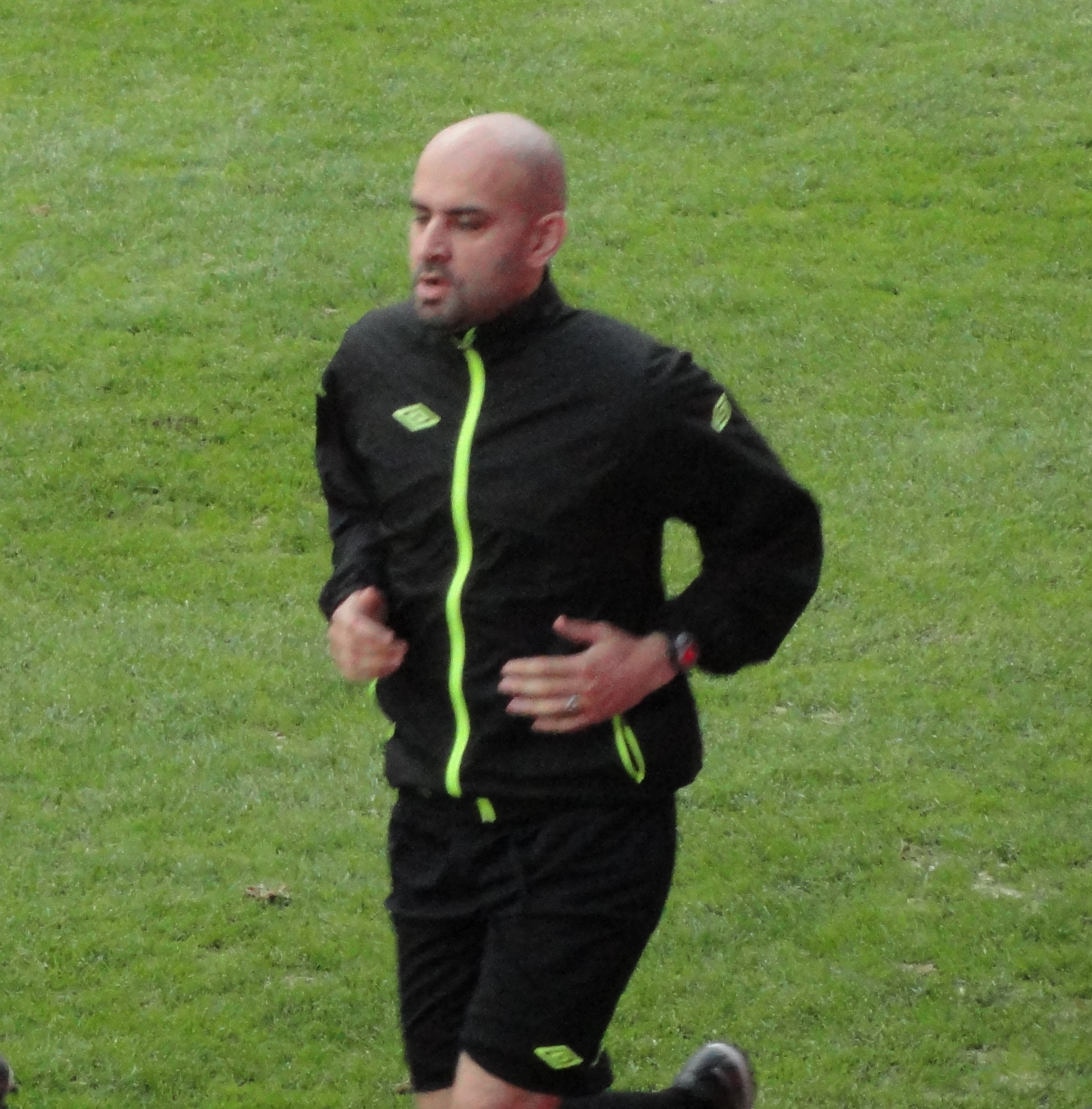 Picture of the norwegian football referee Omar Rafiq